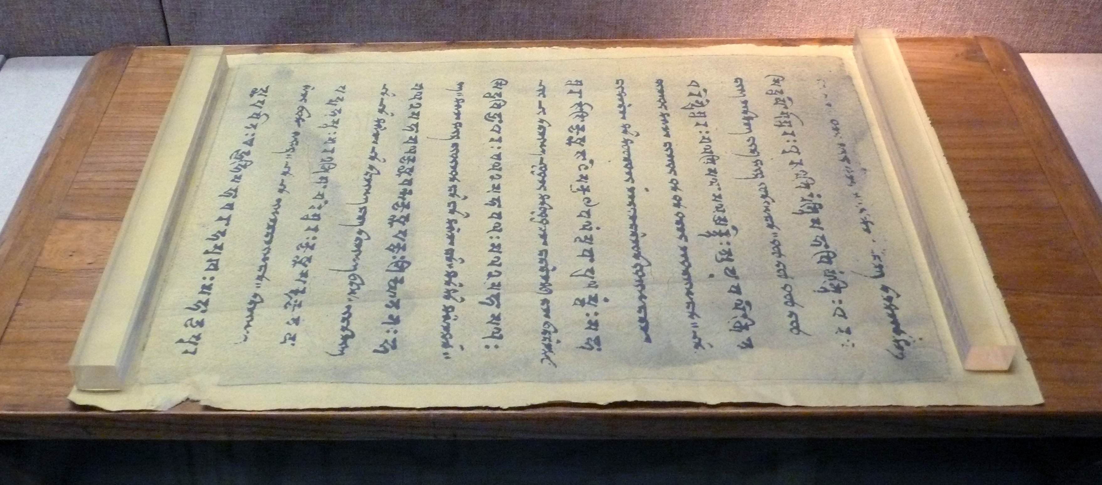 Buddhist texts written in Sogdian script. Collected by National Museum of Chinese Writing.